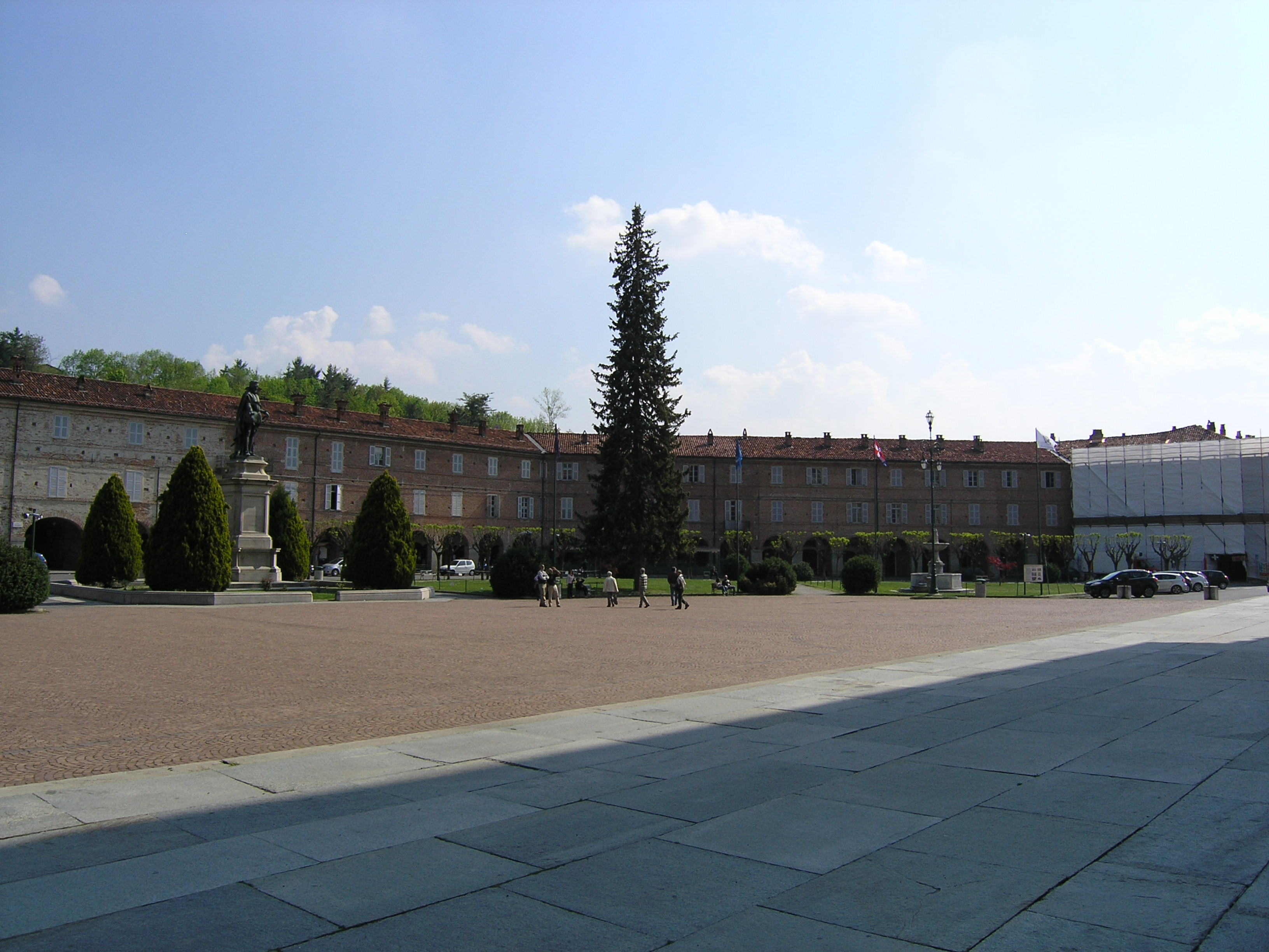 Palazzata and sanctuary's square, a Vicoforte (Italy)